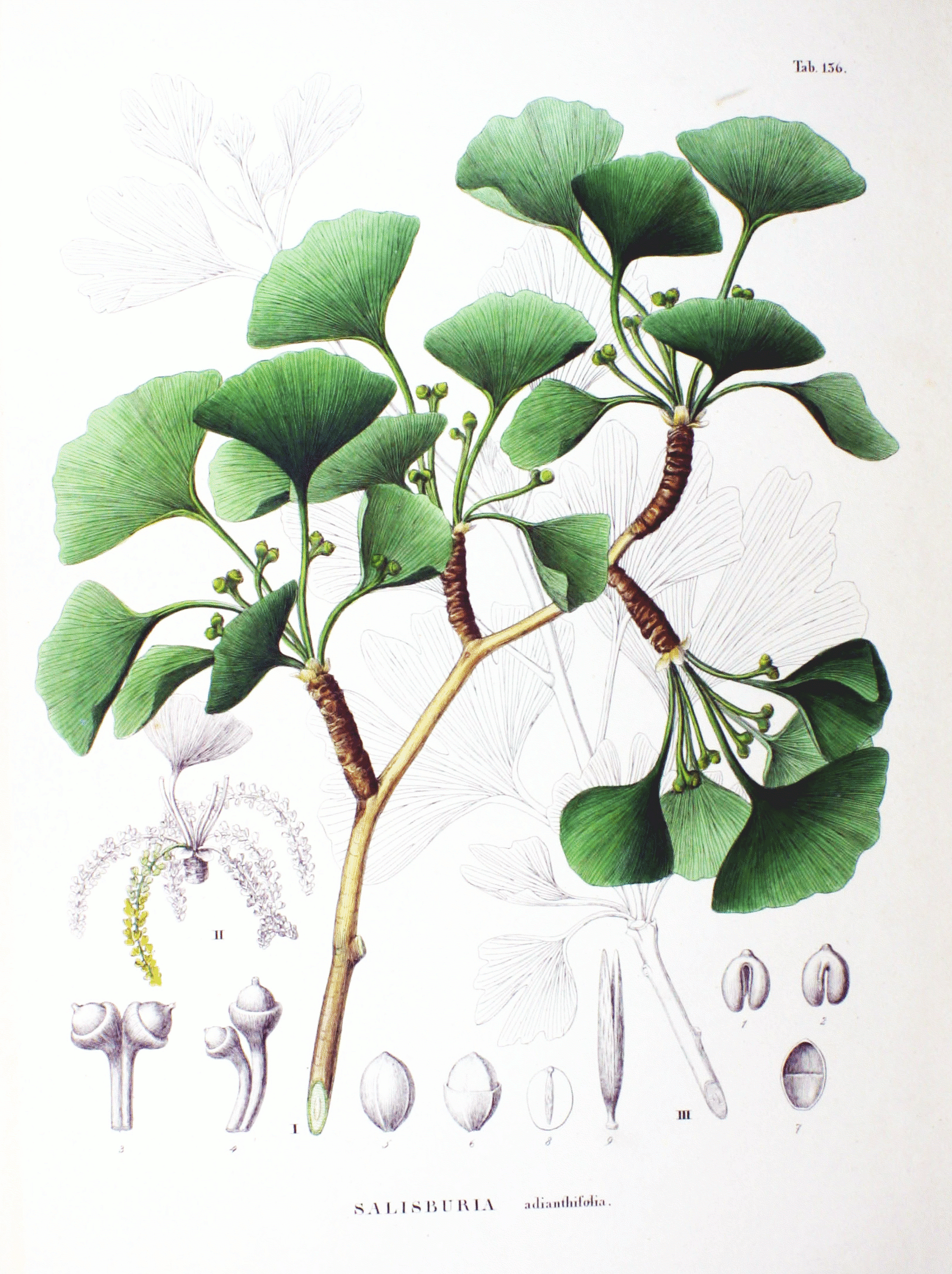 Plate from book